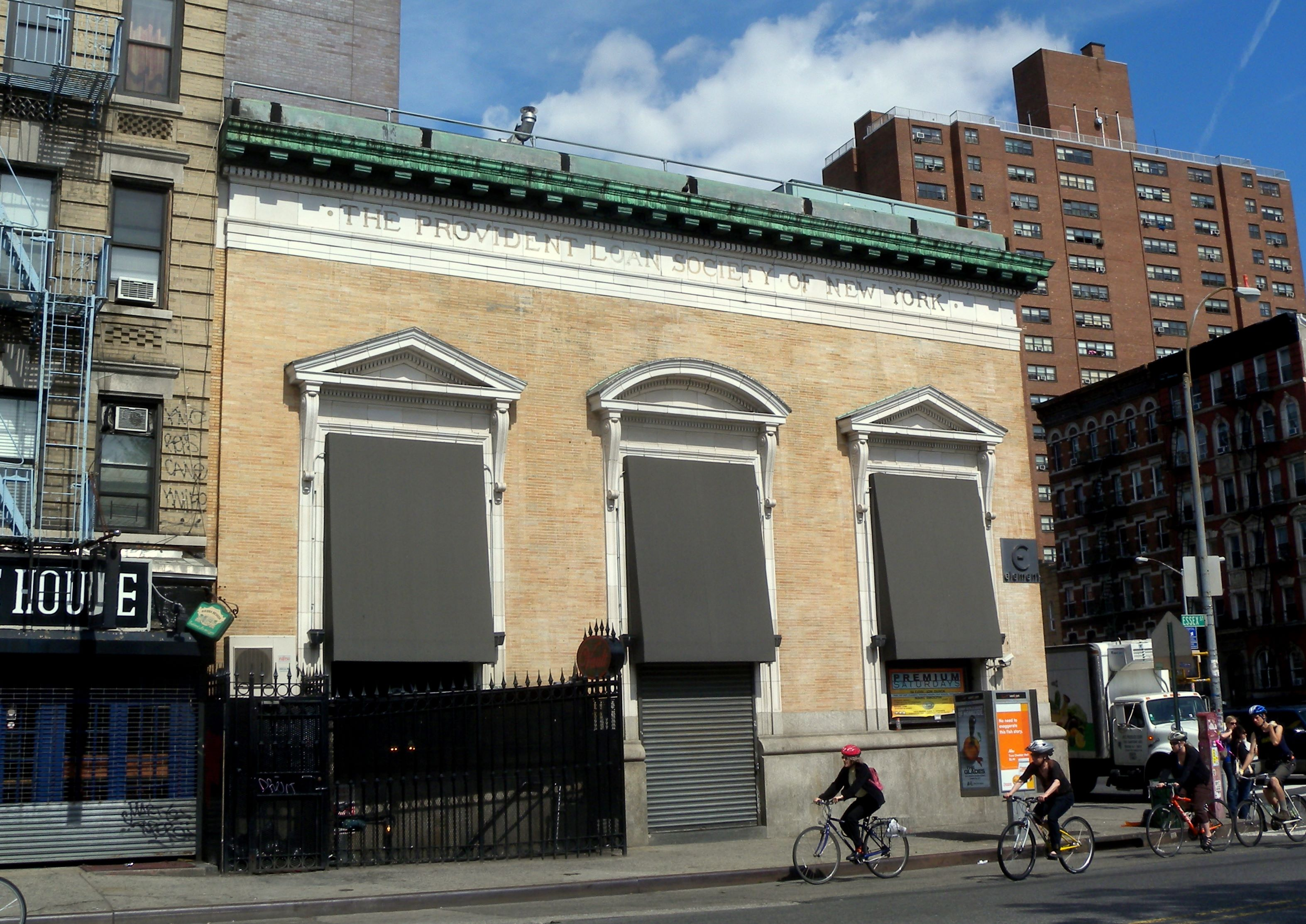 Looking northwest across Essex Street at former Provident Loan Society building and Houston, on a sunny morning.